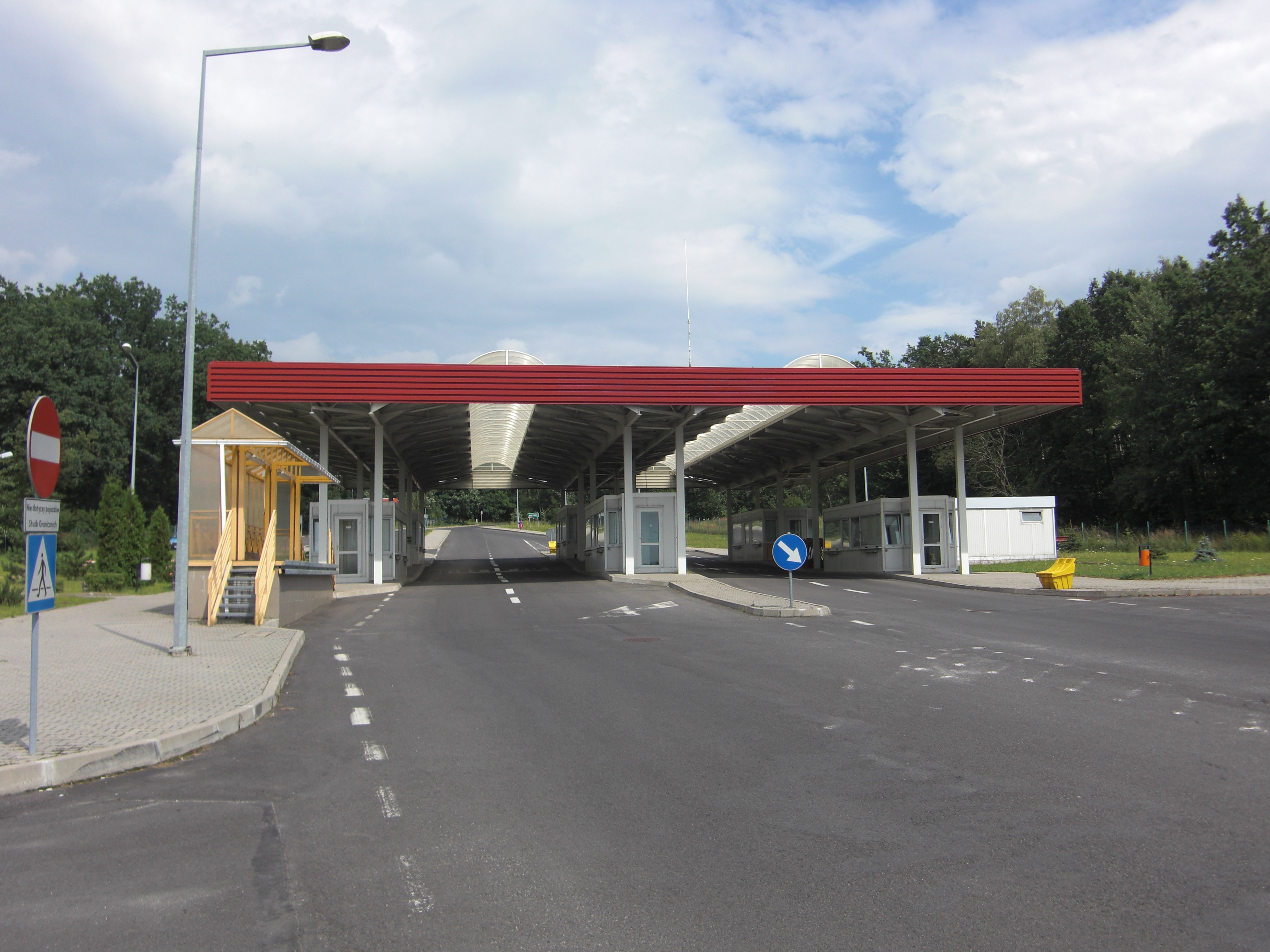 Border